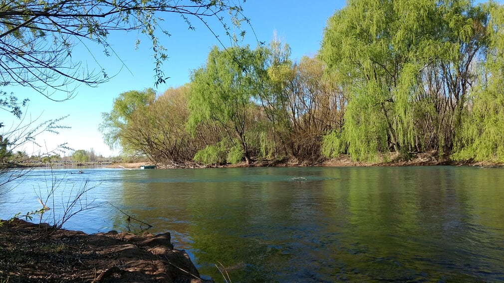 Vista del río Negro en temporada de verano 2019, desde la ciudad de General Roca, Provincia de Río Negro